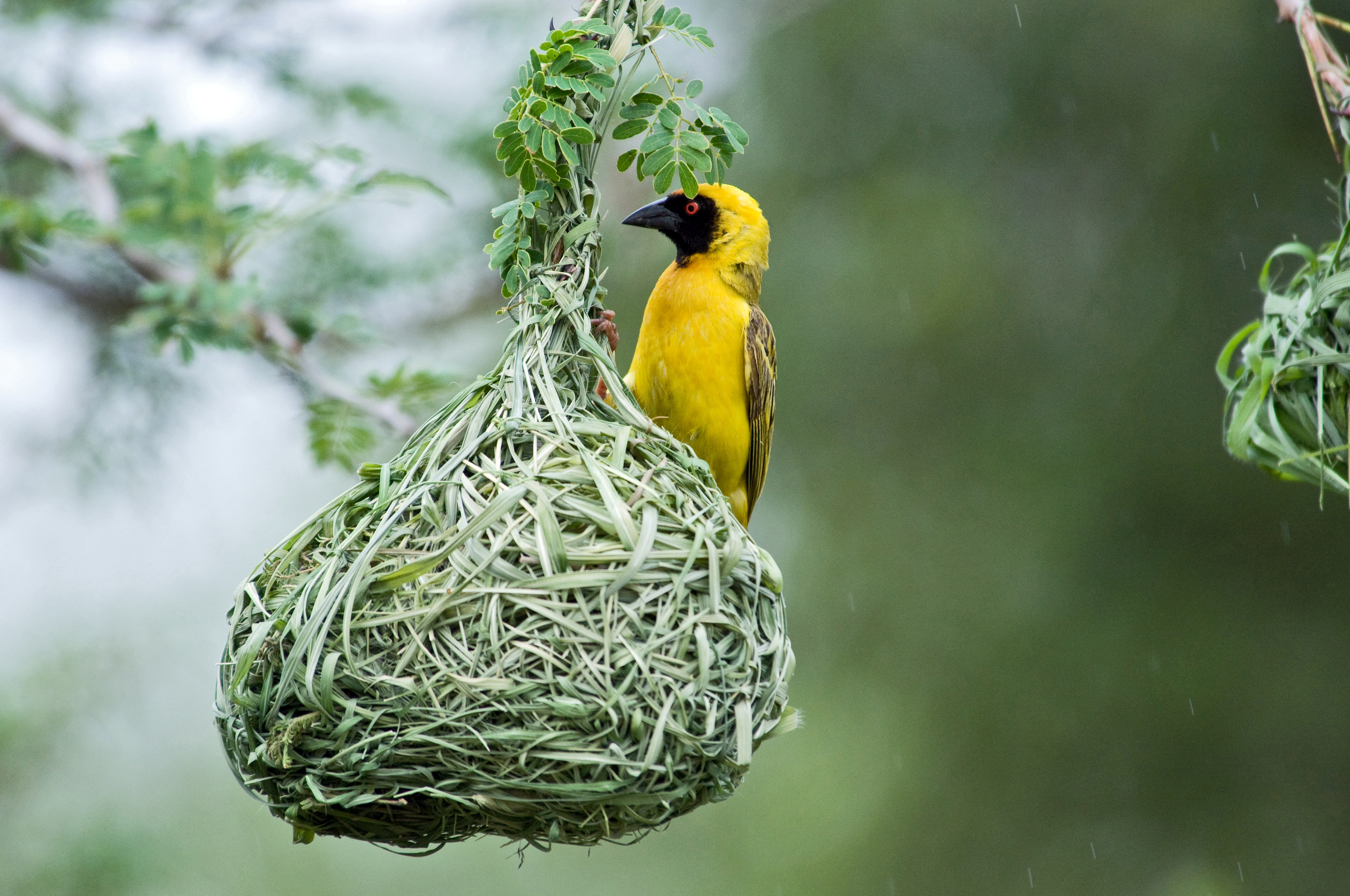 Southern Masked Weaver (Ploceus velatus)